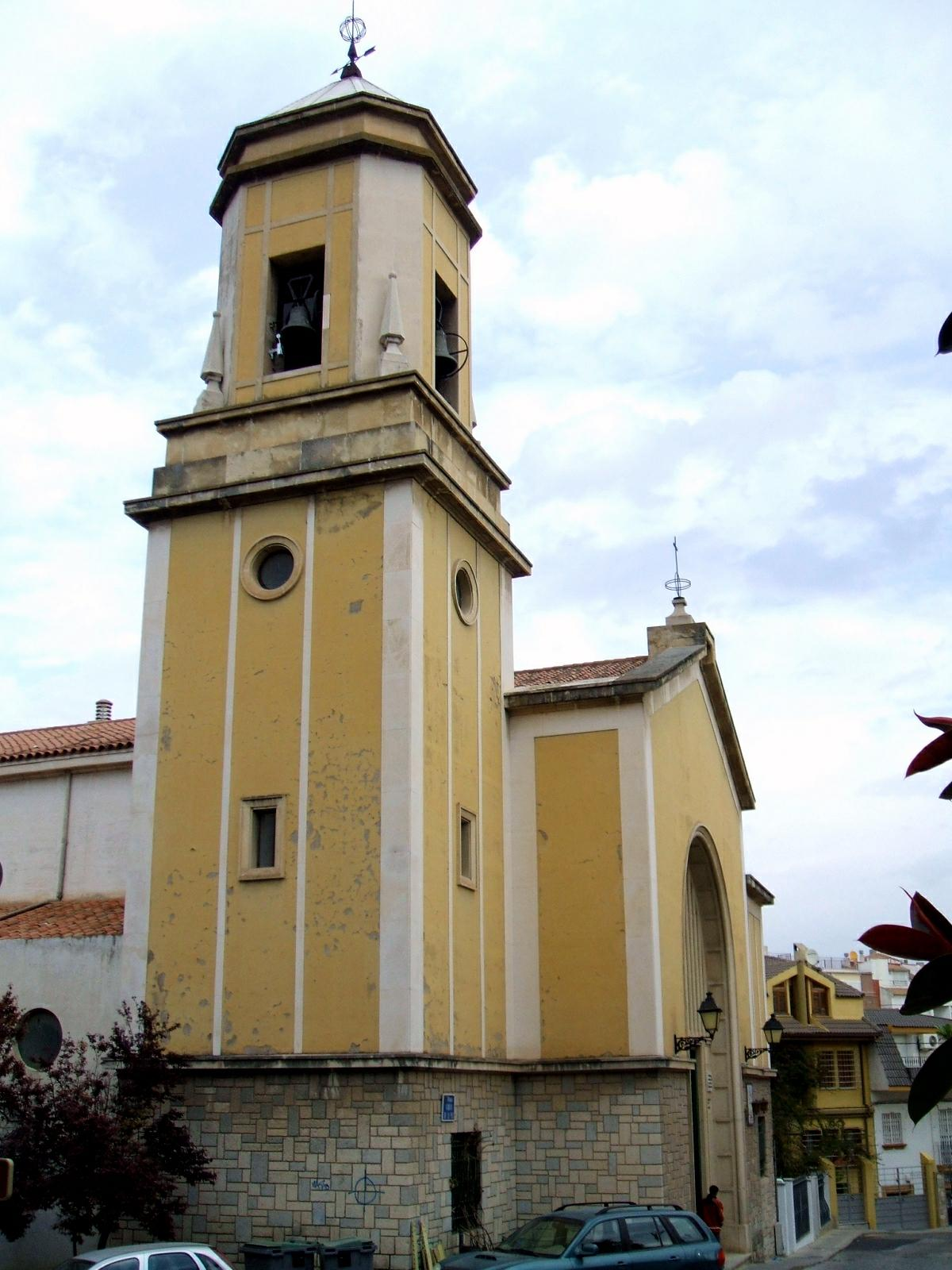 Parroquia de Nuestra Señora de Belén y San Roque, Jaén (Andalucía, España)